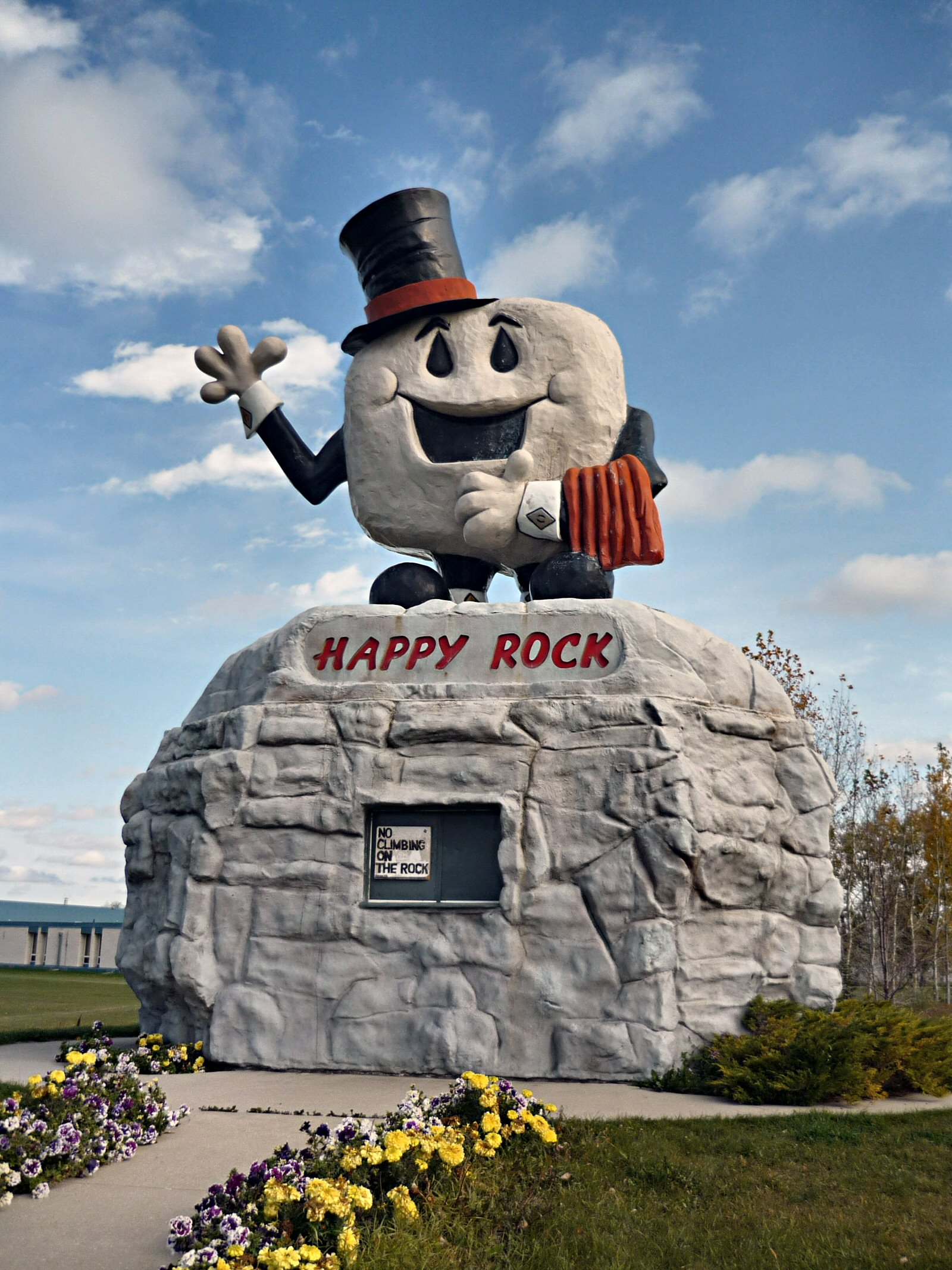 The Happy Rock in Gladstone, Manitoba. The nearby church has a sign reading: Thanksgiving is good.